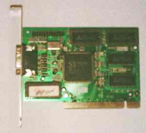 PCI VGA card for the VGA description.